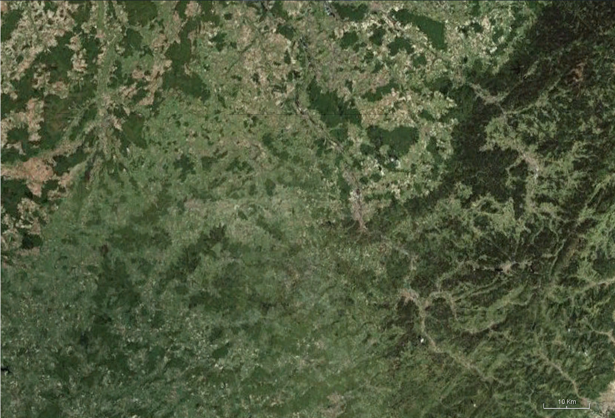 Satellite picture of the Vosges (department)